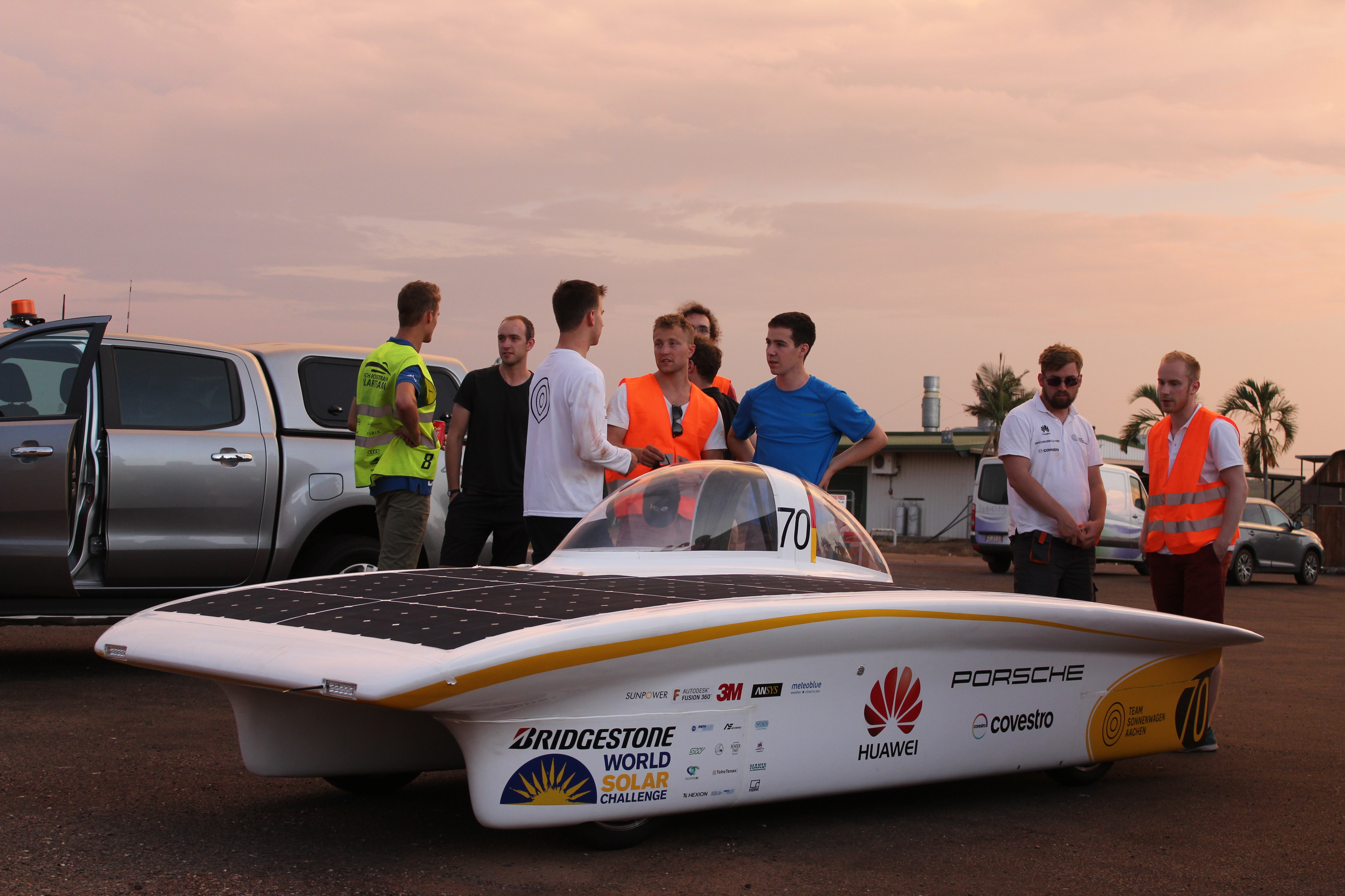 End of a testday